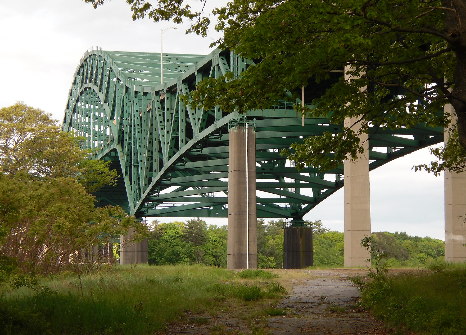 The Piscataqua River Bridge is a cantilevered through arch bridge that crosses the Piscataqua River, connecting Portsmouth, New Hampshire with Kittery, Maine